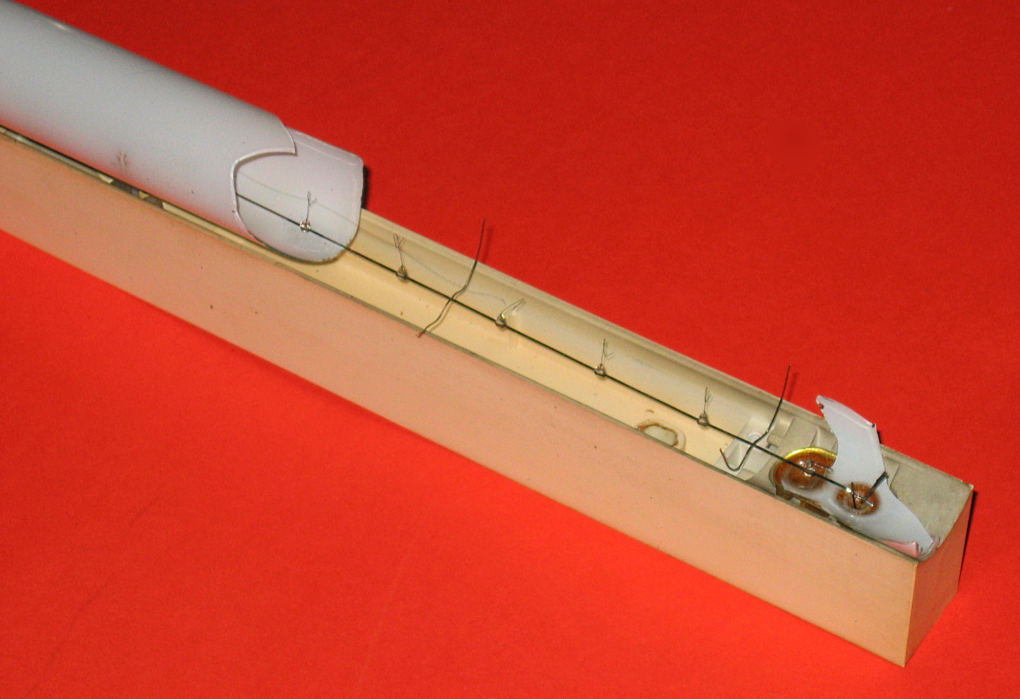 Linestra lamp with visible filament. Despite it looking light a fluorescent light tube, this is actually a tungsten lamp.